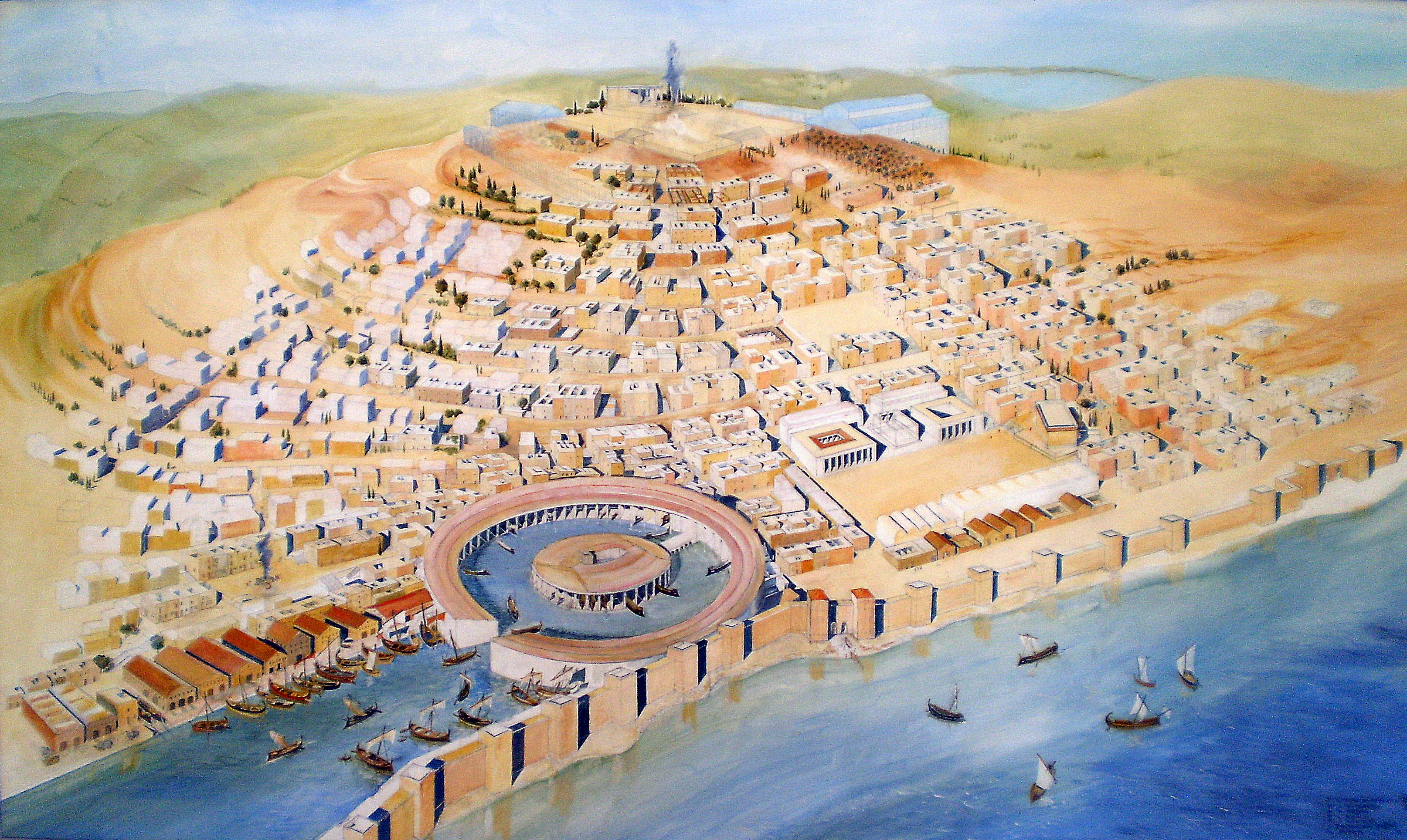 Picture of Cartagena